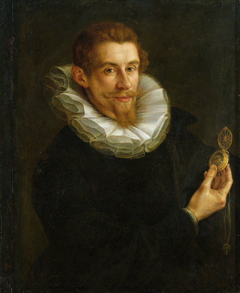 Self Portrait by David Kindt, oil on canvas, 61,5 × 74,7 cm